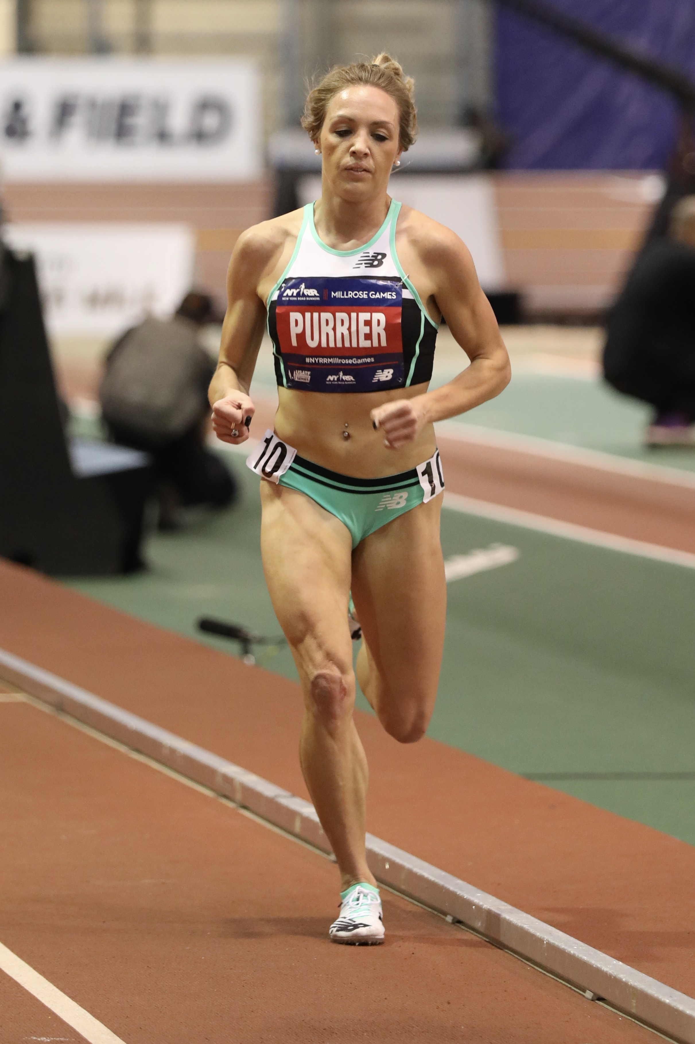 2019 Millrose Games